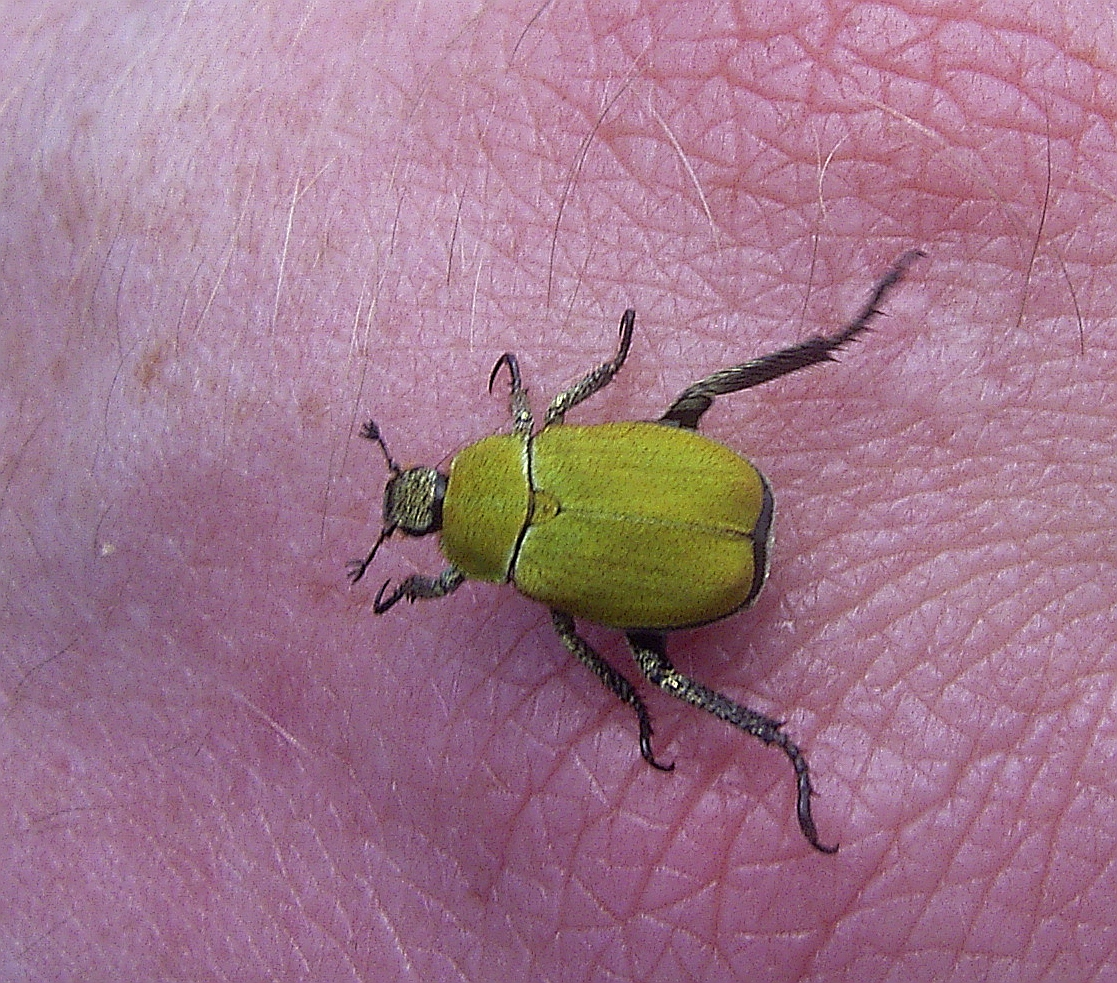 Hoplia farinosa at the Rax, Austria, June 2006. Author: Denis Barthel